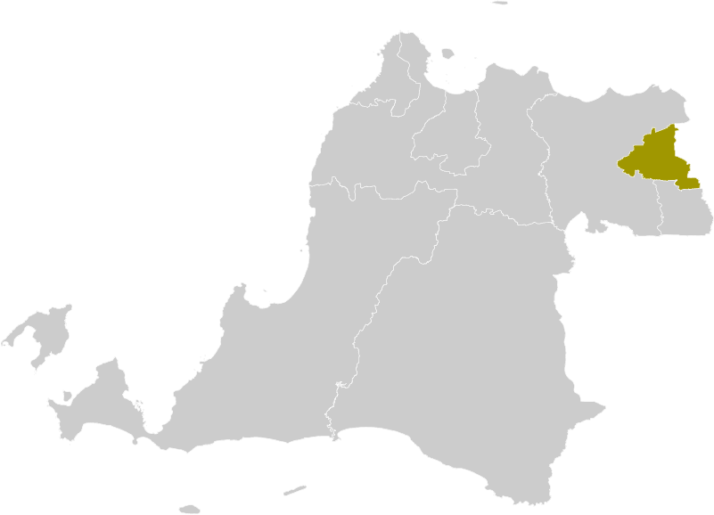 Locator map of Tangerang Municipality